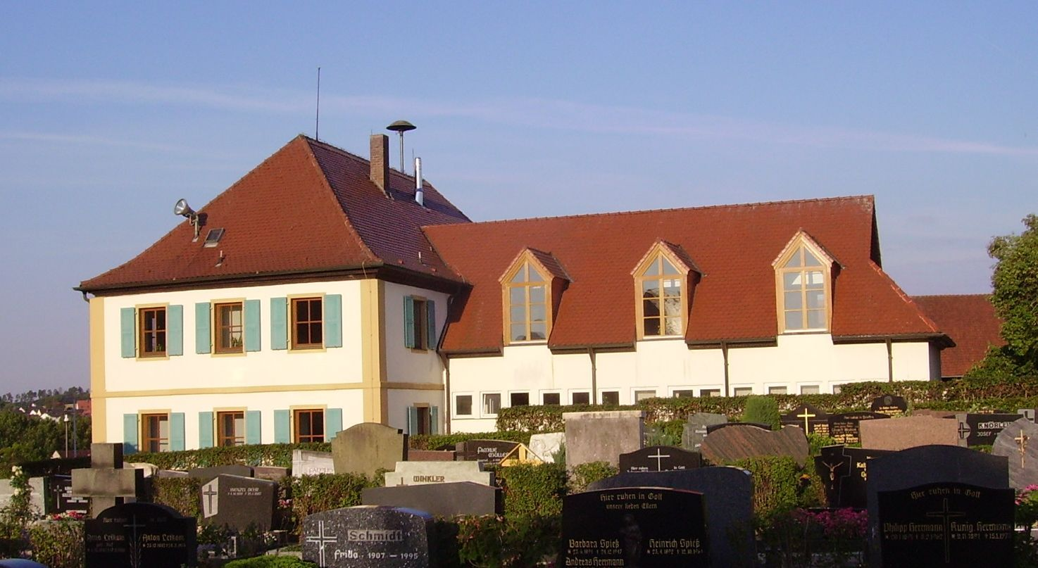 Litzendorf, view of the town hall facing west.